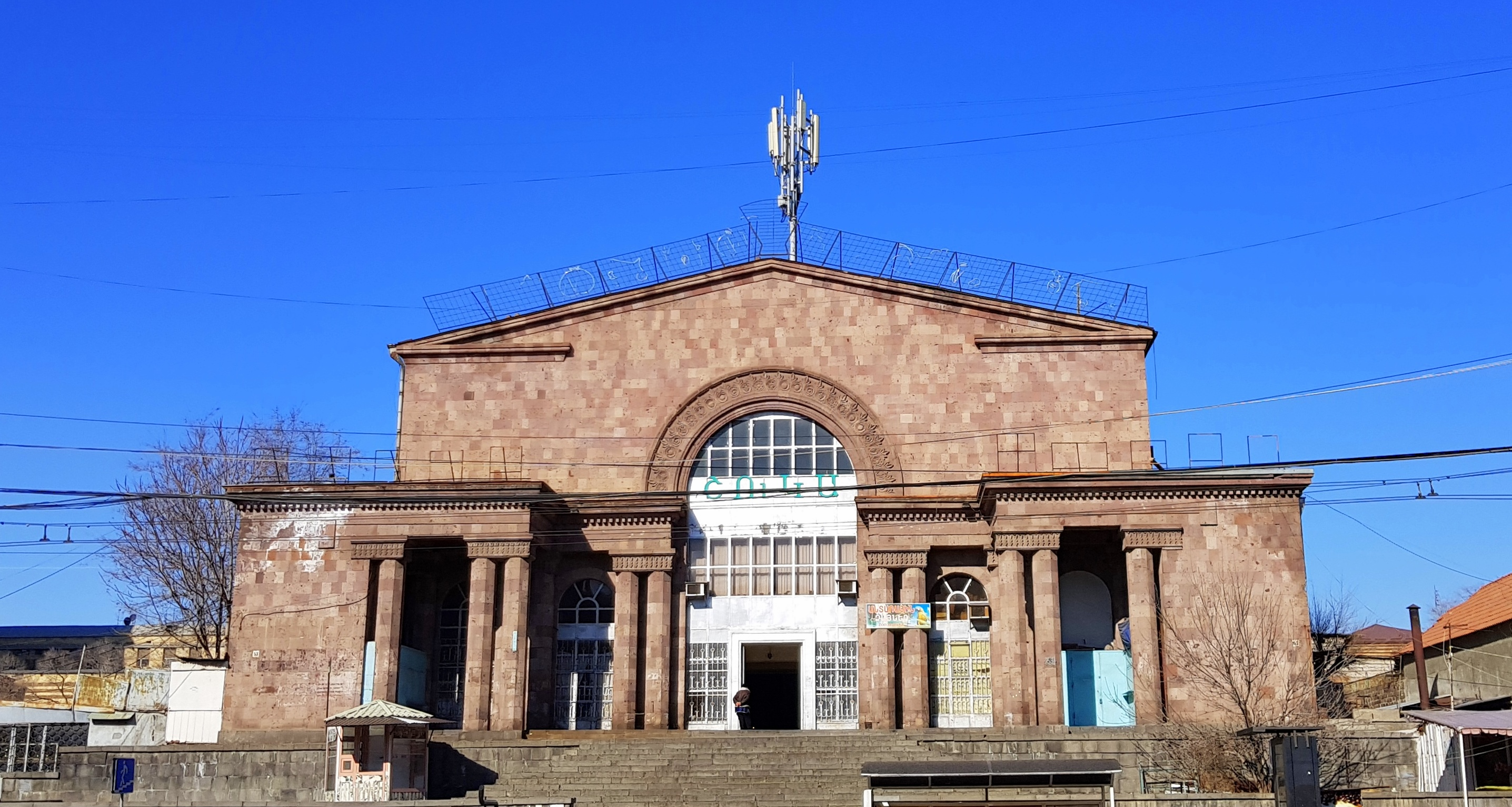 Komitas Market